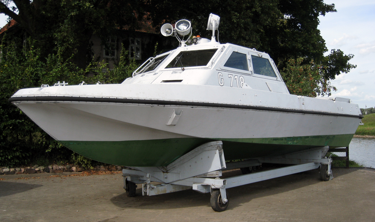 High-speed Grenzsicherungsboote (Border Security Boat) of the GDR. On display at Schnackenburg, Lower Saxony. Technical data: Constructed: 1979 Length: 9.75m Breadth: 3.20m Depth: 0.46m / 0.85m Speed: 50 km/h Propulsion: 2 x 140 horsepower engines